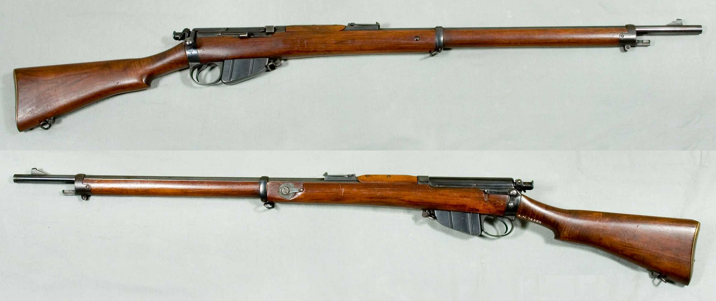 Rifle Lee-Metford Mk II. Caliber .303 British. From the collections of Armémuseum (Swedish Army Museum), Stockholm, Sweden.